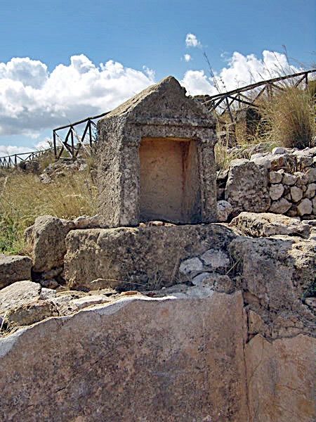 Solunto, Sicily, Punic shrine is one of the houses of the tonw